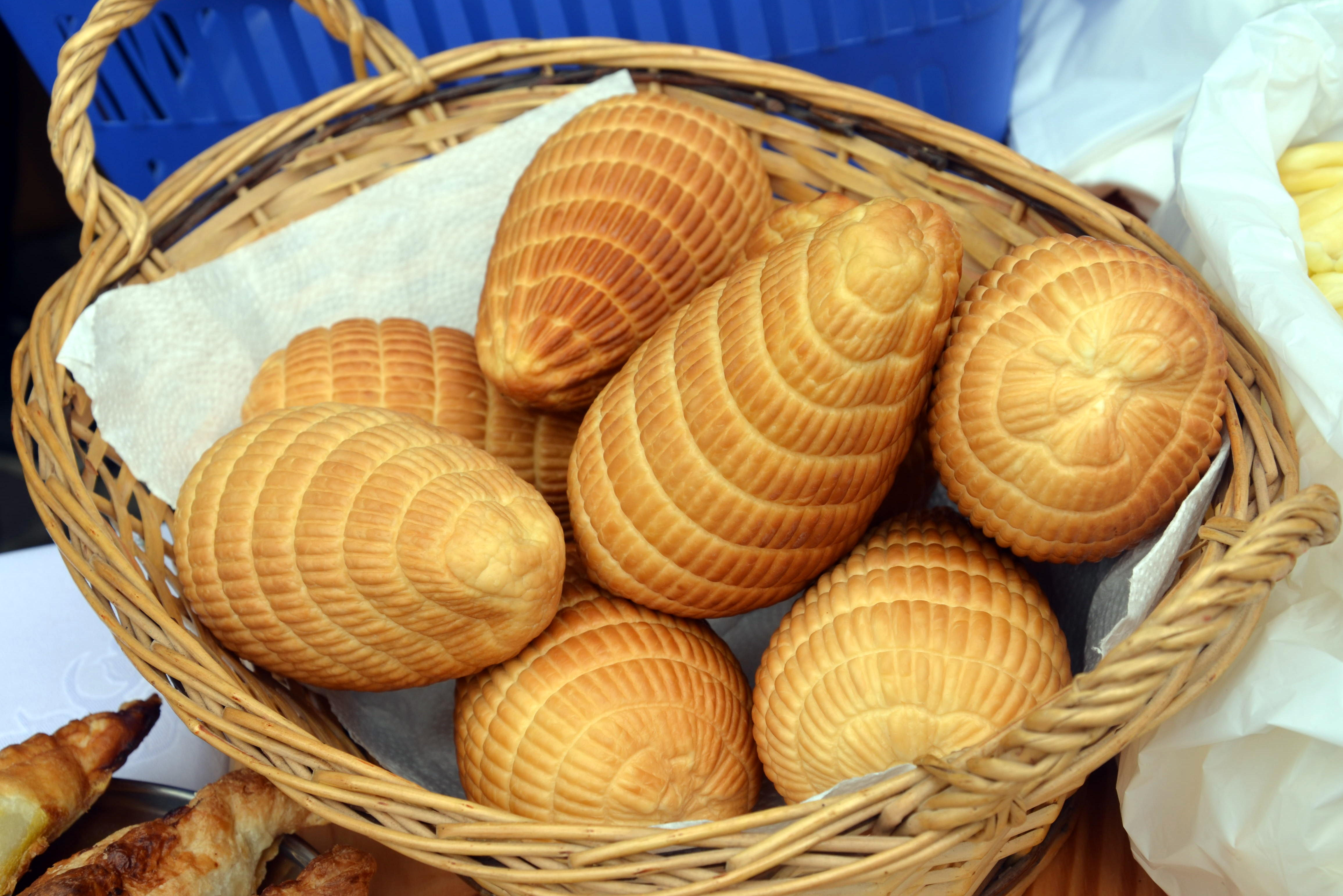 Sheep's-milk cheeses